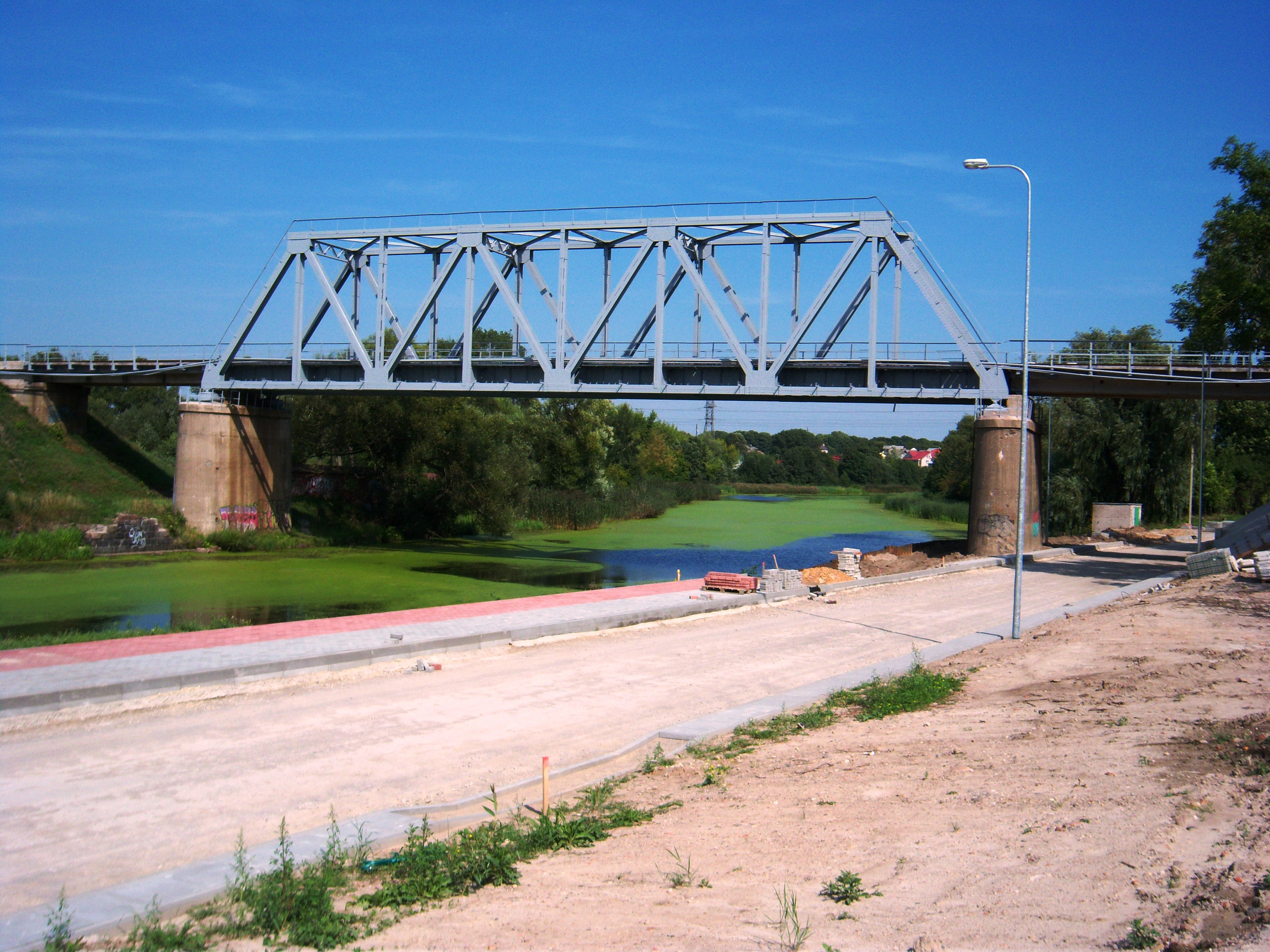 Railway bridge over Dangė River, Klaipėda, Lithuania